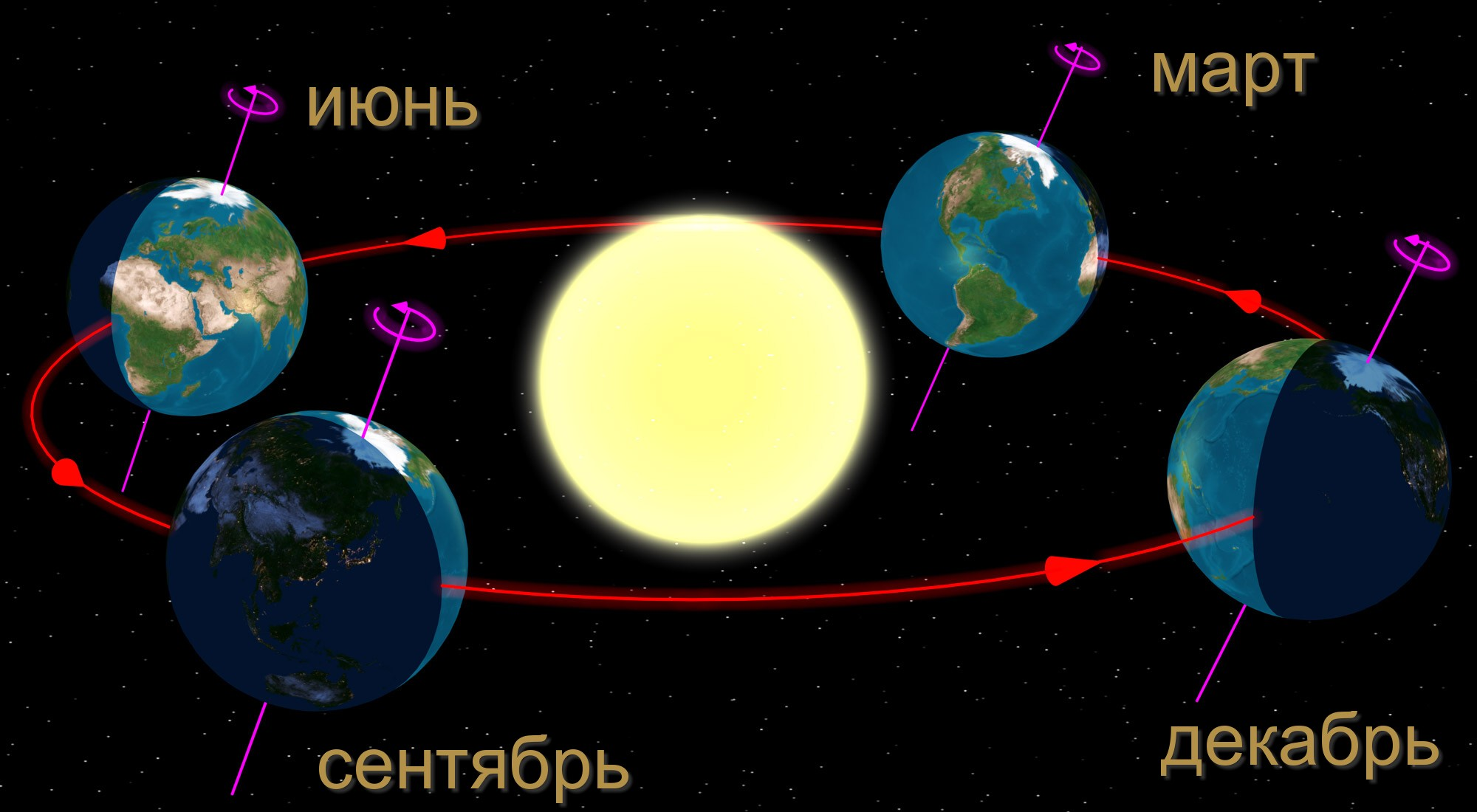 The Earth at the start of the 4 (astronomical) seasons as seen from the north and ignoring the atmosphere + Russian names of months